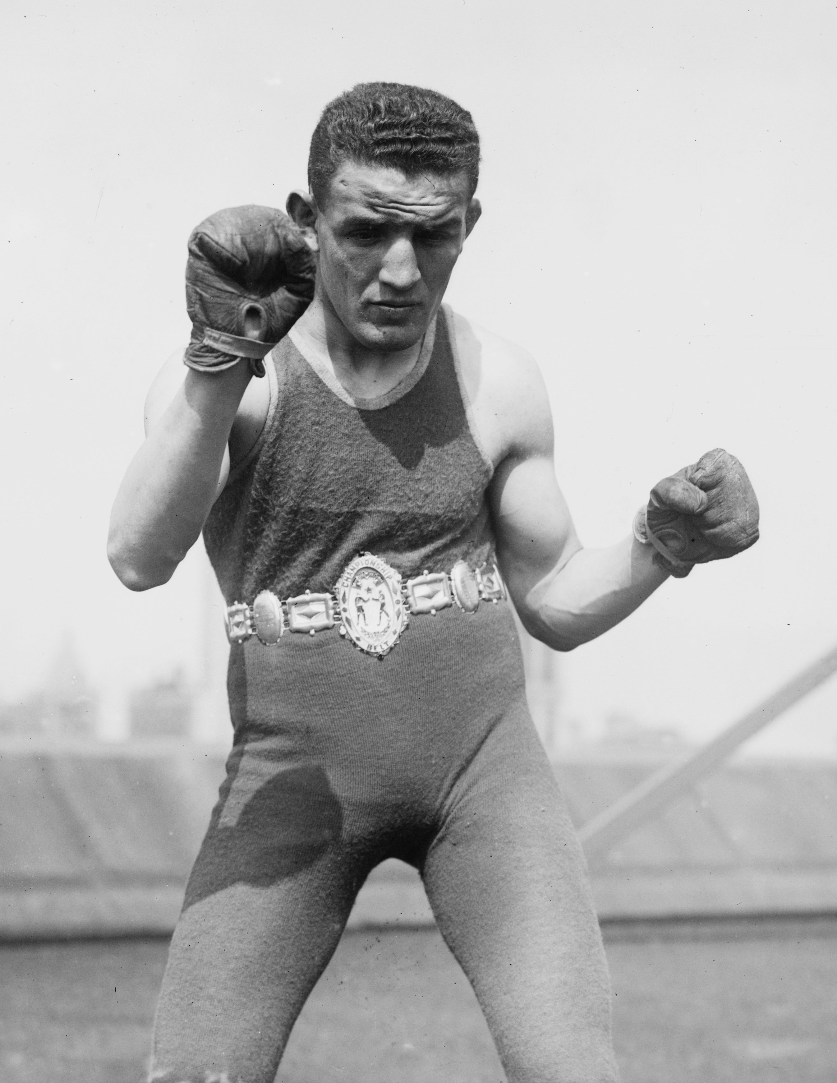 Title: Harry Stone Abstract/medium: 1 negative : glass ; 5 x 7 in. or smaller.